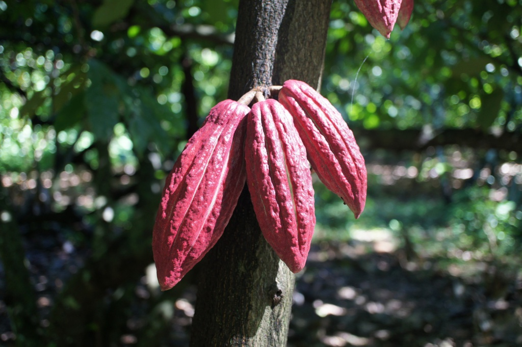 cocoa